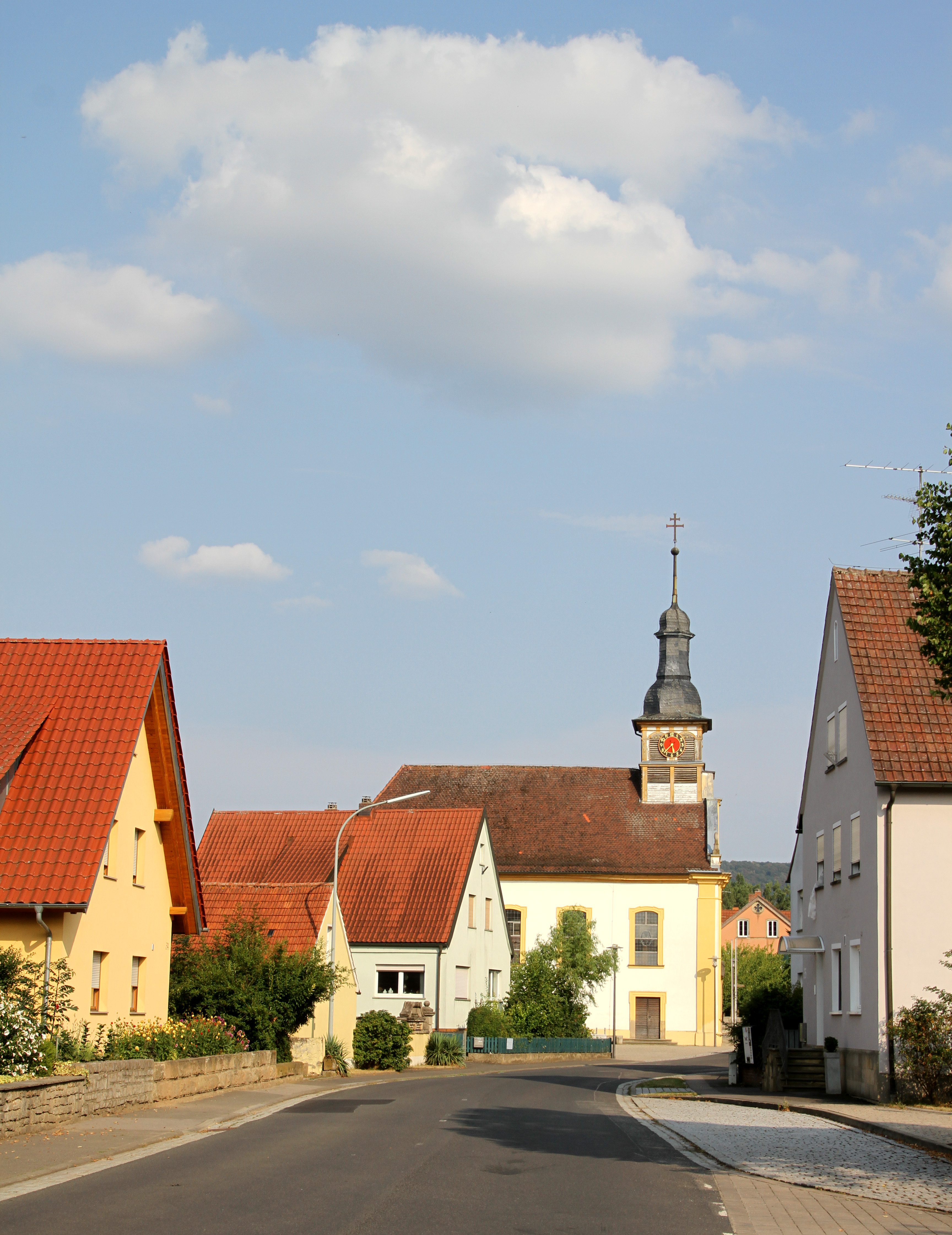 Church of St. Barbara in Oberschwappach